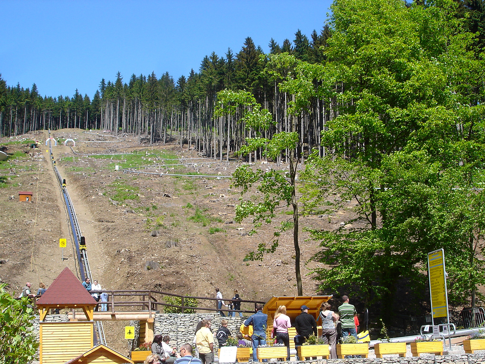 view over the toboggan run in Ruhla